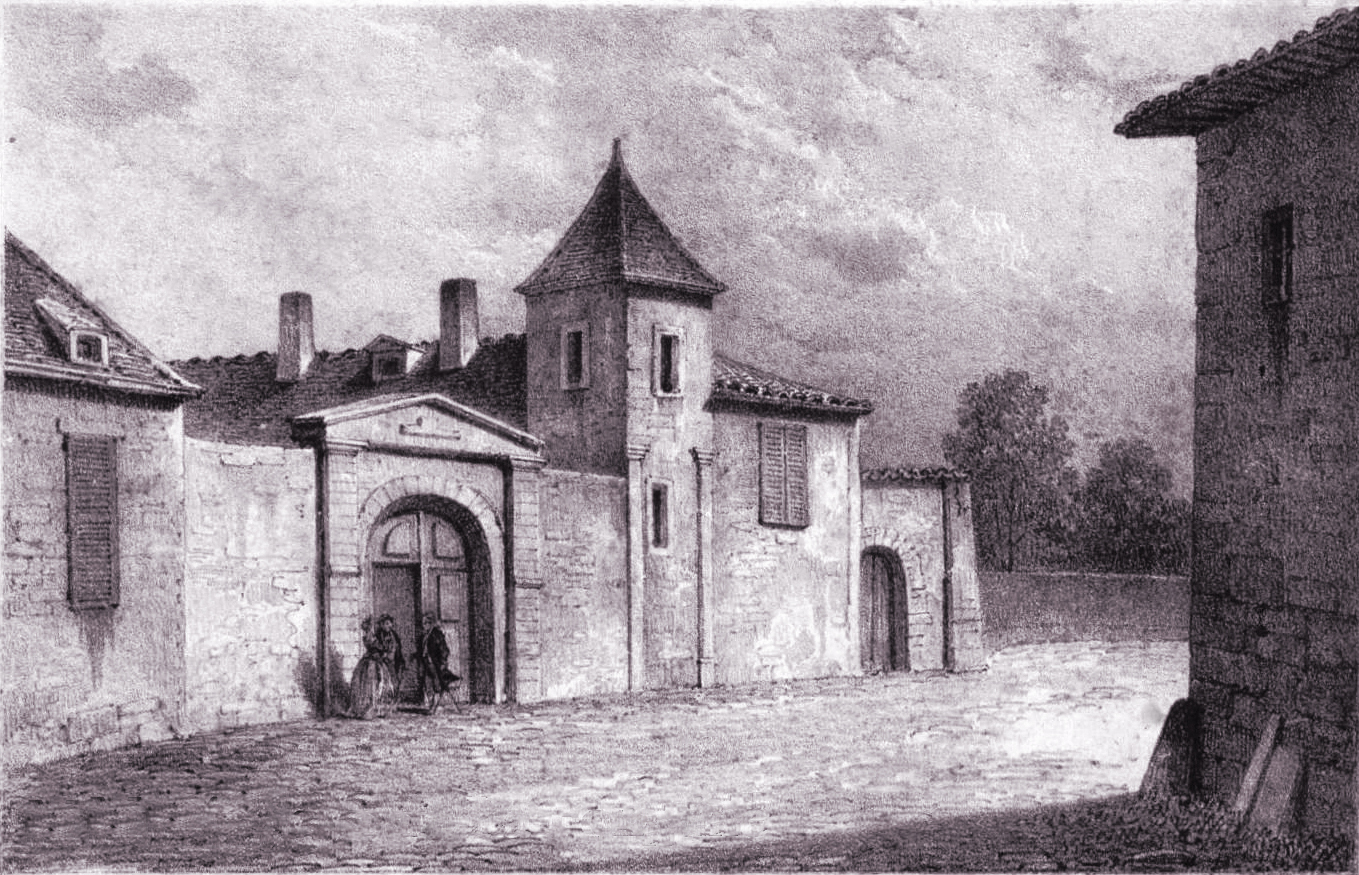 Jean de La Fontaine's house, as it was in the 17th century.